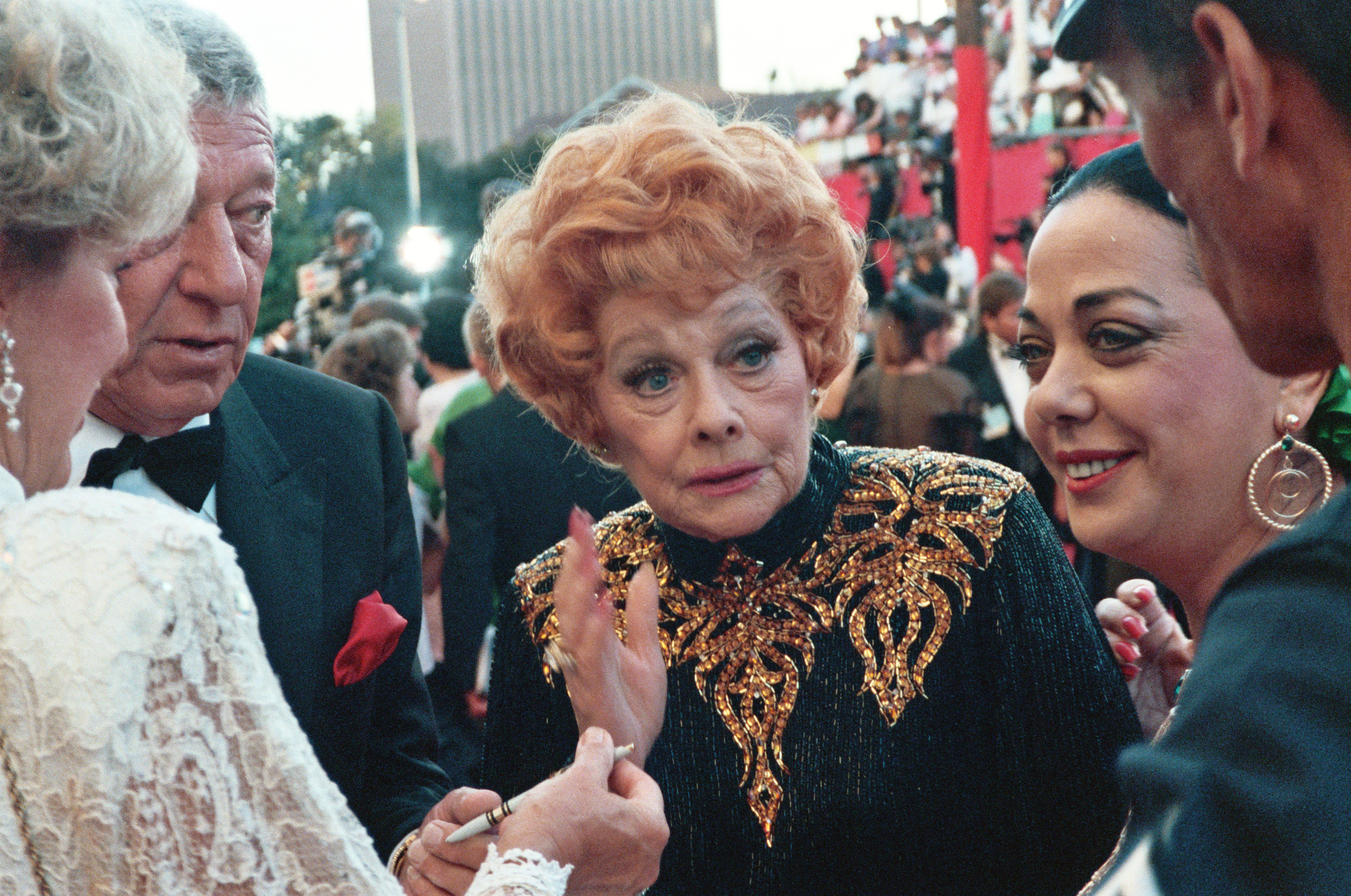 Lucille Ball on the red carpet at the 61st Annual Academy Awards, 1989. Photo taken at 61st Academy Awards 3/29/89 at Lucy's last public appearance. She died less than a month later on 4/26/89. At the time I took these photos of her I wanted to say hello, but she was already being approached by several other people and looked confused, so I stayed back. I didn't want to add to her disorientation. One of the coolest things about this day was, as I was putting on my tux at the hotel getting ready to go to this Oscars show, an old black and white I LOVE LUCY episode was playing on the TV. I knew Lucy was scheduled to be at the show and I looked forward to seeing her in person. It was a bit surreal. - Permission granted to copy, publish or post anywhere but please credit "photo by Alan Light". High resolution scan of the original 35MM film negative - 256 pixels/inch.